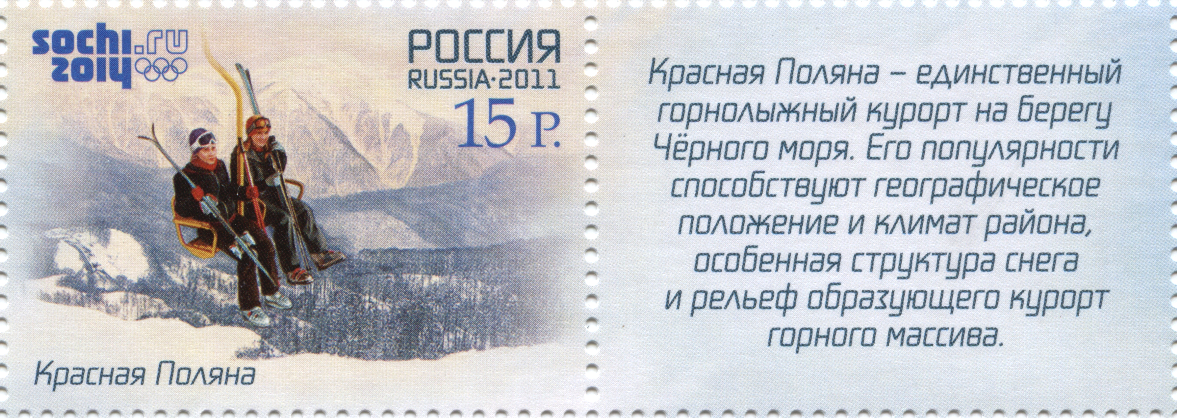 XXII Olympic winger games in Sochi A ski resort Krasnaya Polyana. The stamp of Russia, 2011, PTC Marka Catalogue 1524-1527.